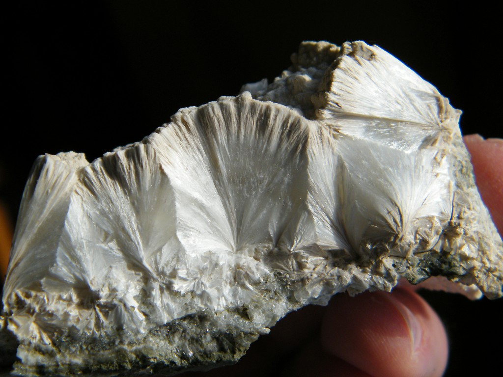 Thaumasite (image is 2.5" across; entire specimen 3" x 2.5" x 2") Locality: Upper New Street Quarry (Burger's Quarry), Paterson, Passaic County, New Jersey, USA Slab of acicular pectolite crystals topped with (pseudomorphic?) thaumasite (darker, softer).